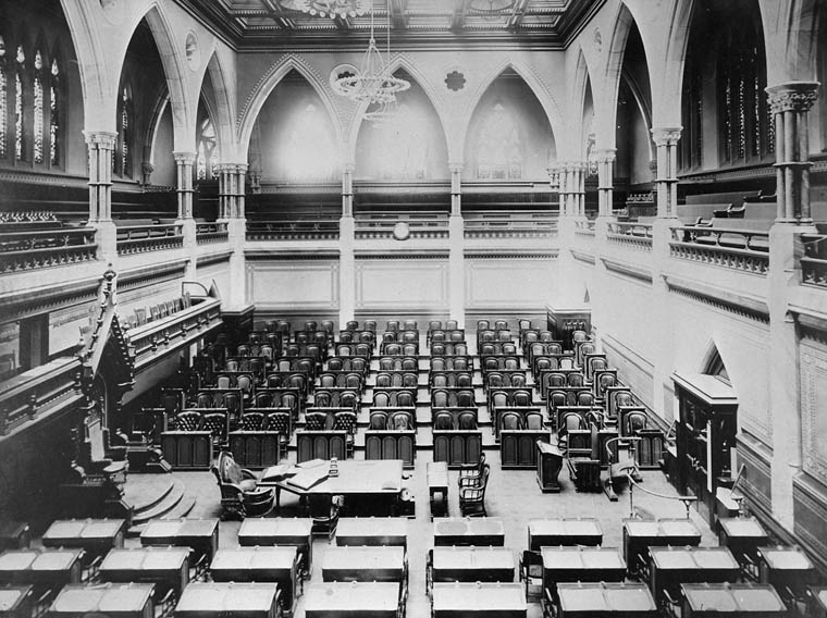 Interior of the House of Commons, Parliament Buildings, Ottawa, Ont., 1916